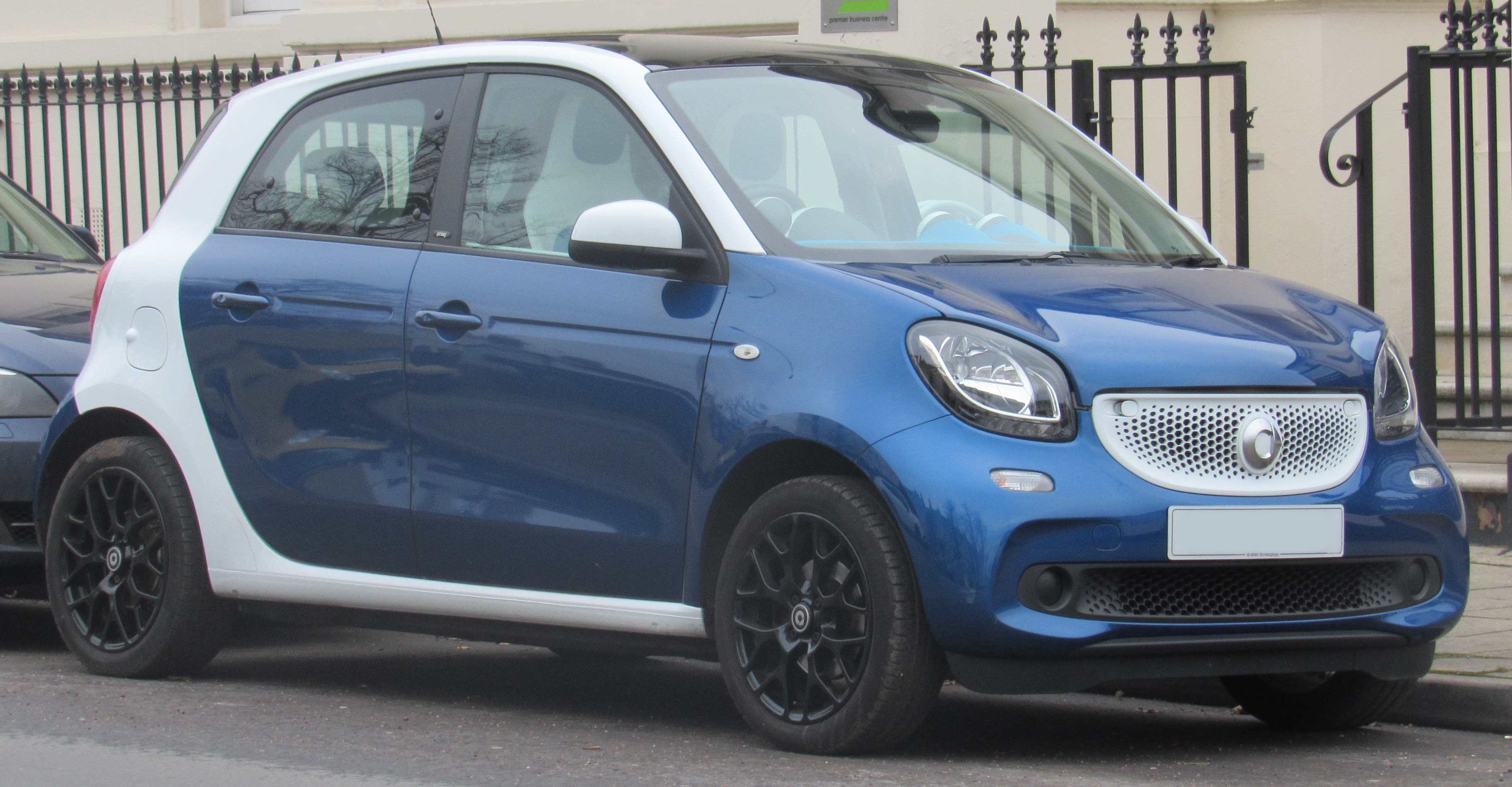 2015 Smart Forfour Proxy Premium 1.0 Taken in Leamington Spa